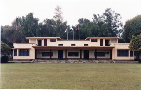 Sadiq Public School cricket pavilion.